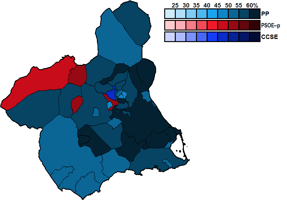 Most-voted party in Murcia municipalities, showing vote share obtained, in the Spanish general election, 2000.